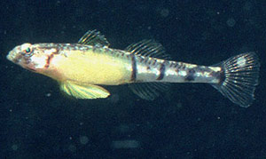 Picture of Pomatoschistus quagga